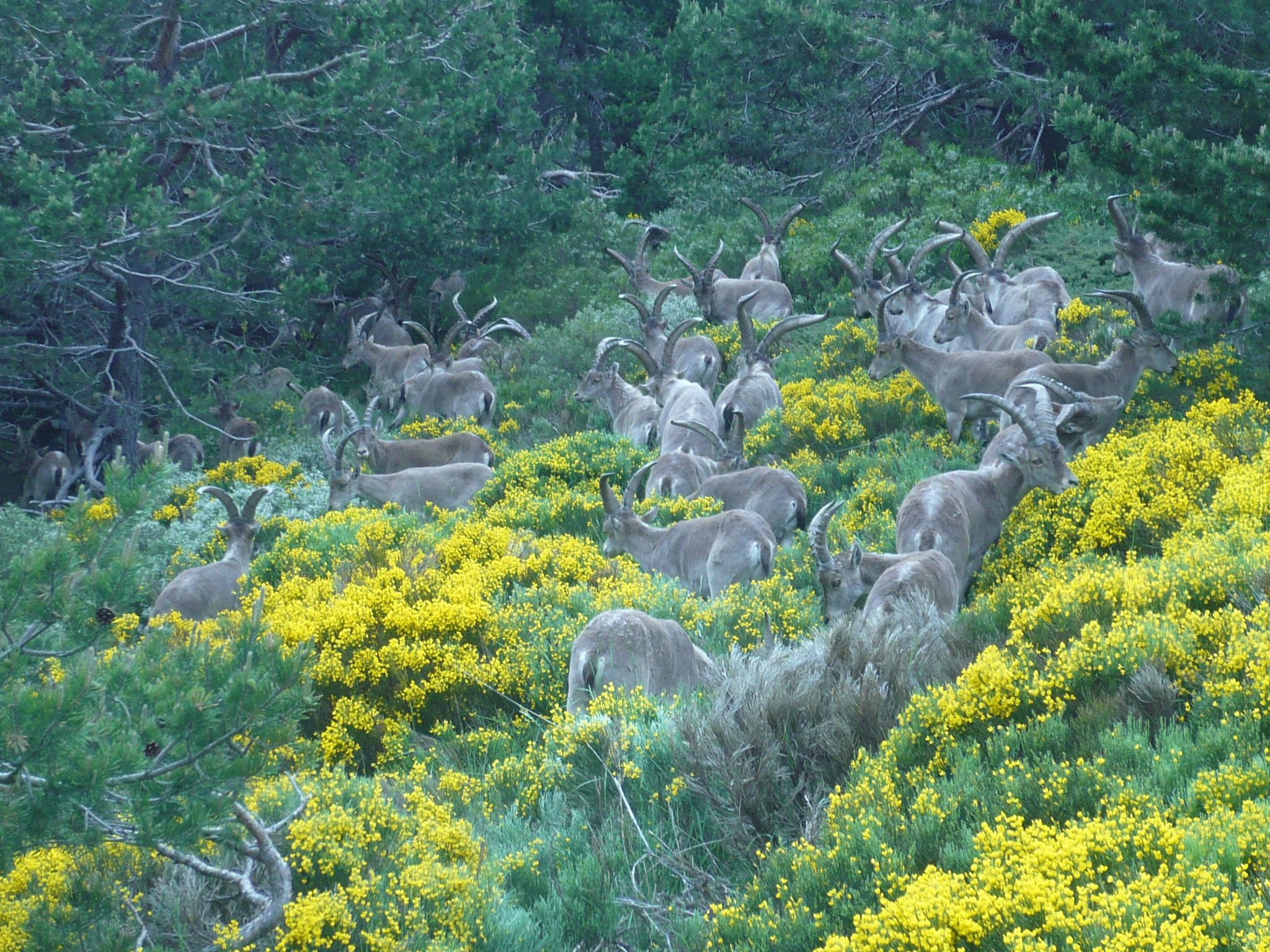 Male group of Capra pyrenaica at Sierra de Guadarrama